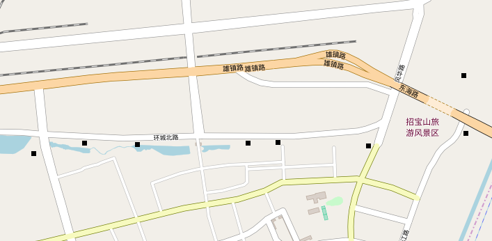 Postion of Bunkers in Zhenhai